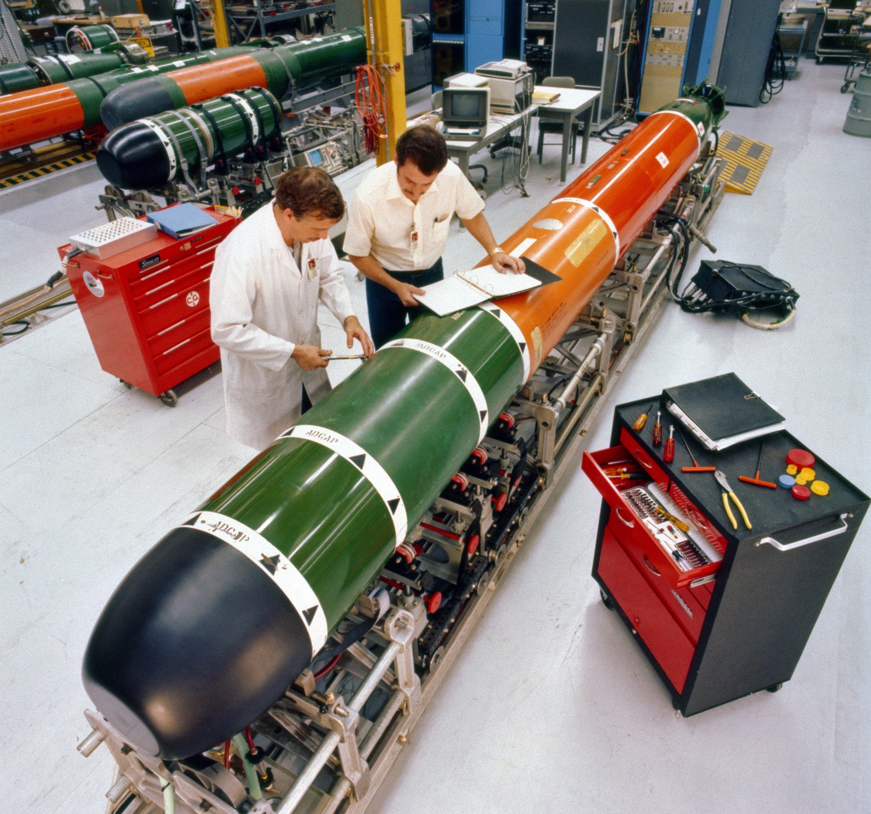 Technicians perform maintenance on a Mark 48 advanced capabilities torpedo at Keyport, Washington in 1982.